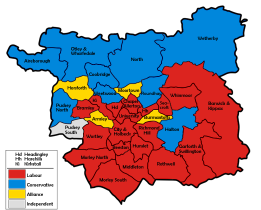 Ward map of Leeds City Council with political colouring for the 1984 election.